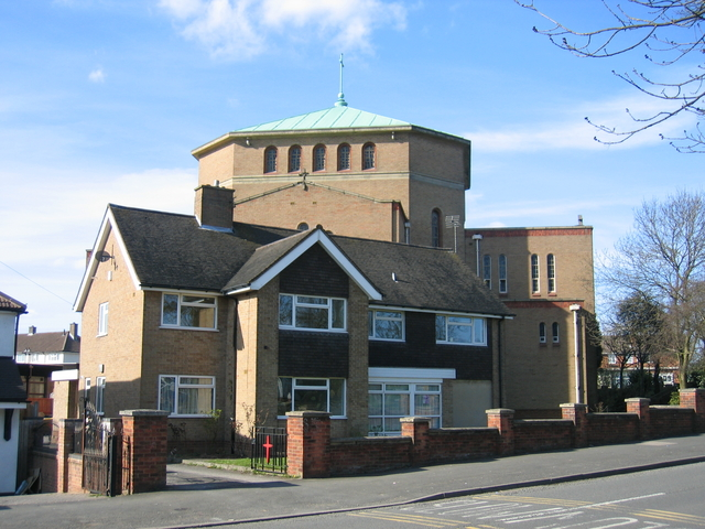 St John Fisher Roman Catholic Church, West Heath The relatively modern church building and associated house on the corner of Cofton Road at the junction with Alvechurch Road.